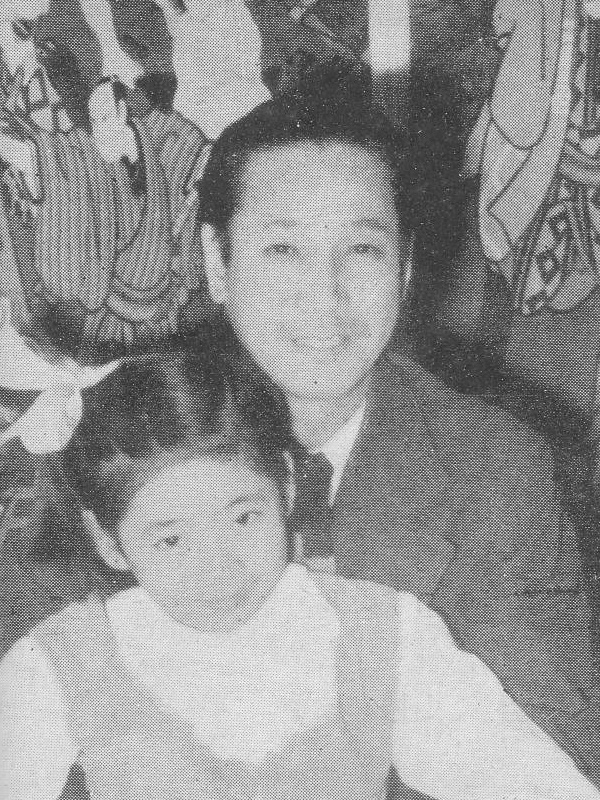 Shōgo Shimada and His daughter. taken in 1951.